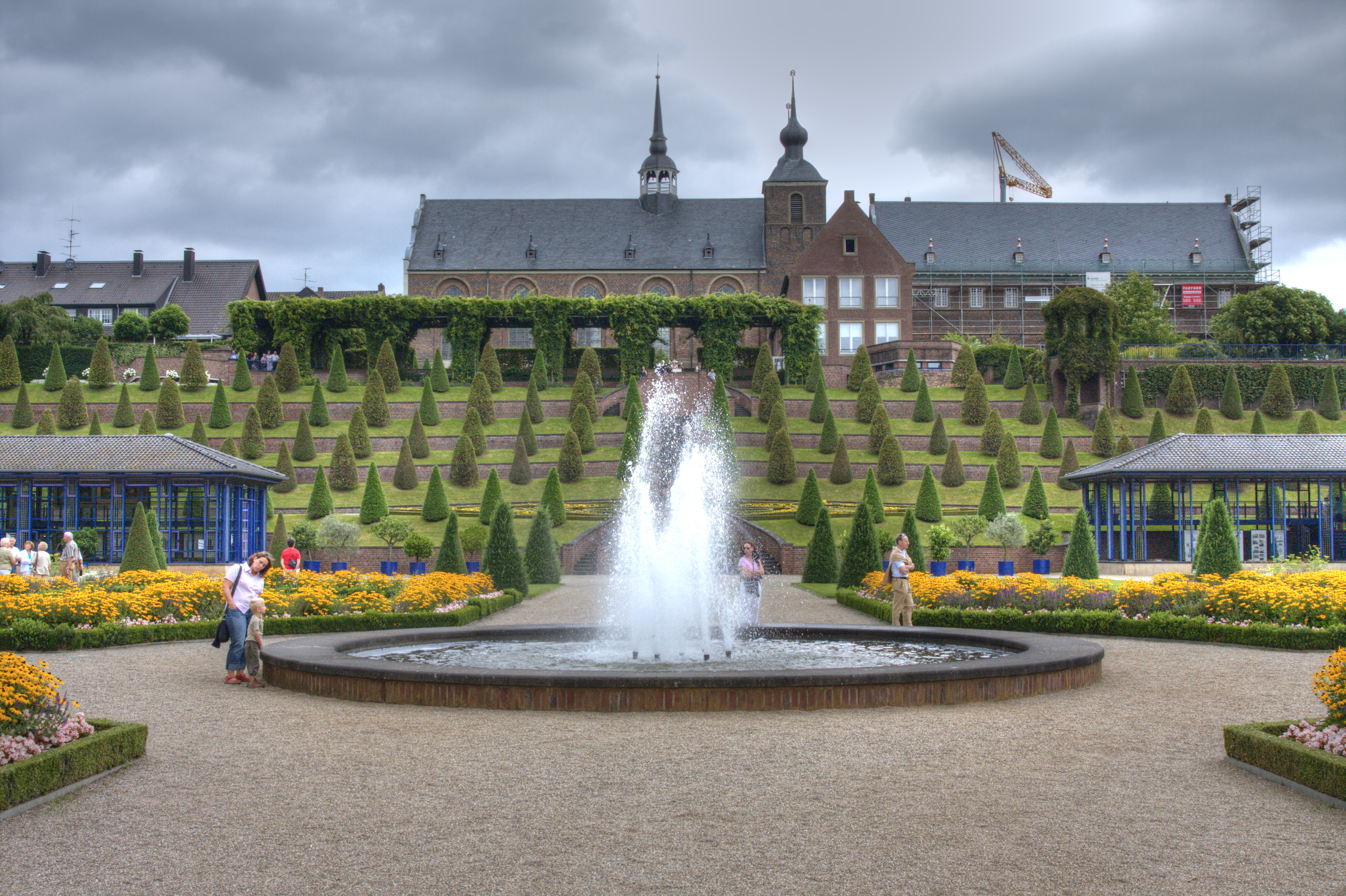 Terrace garden of the monastery Kamp with interesting cloud formations.